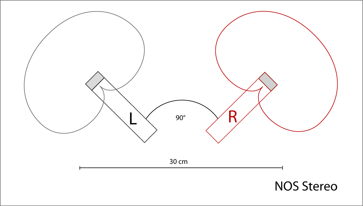 NOS stereo microphones